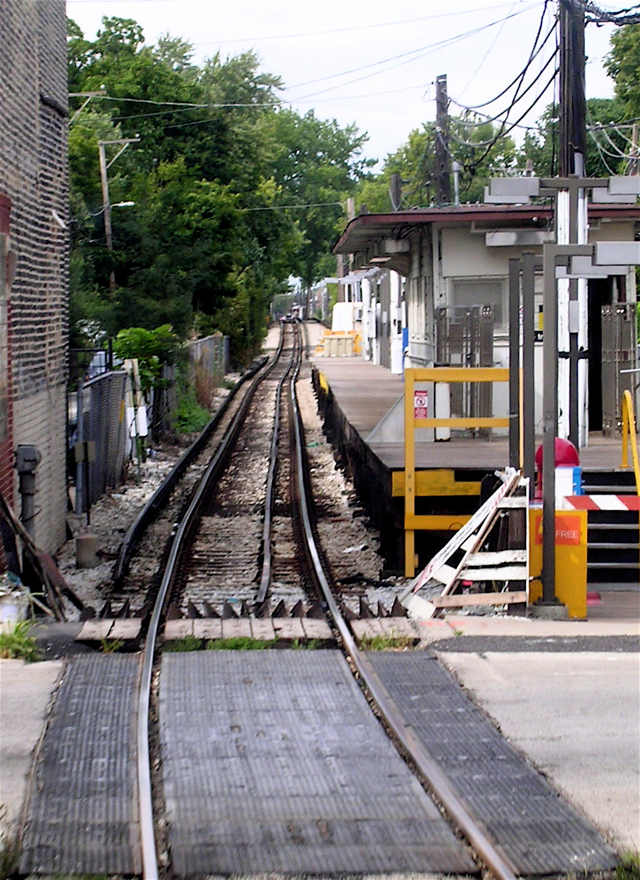 The original Rockwell Station on the CTA Brown Line prior to rebuilding in 2006